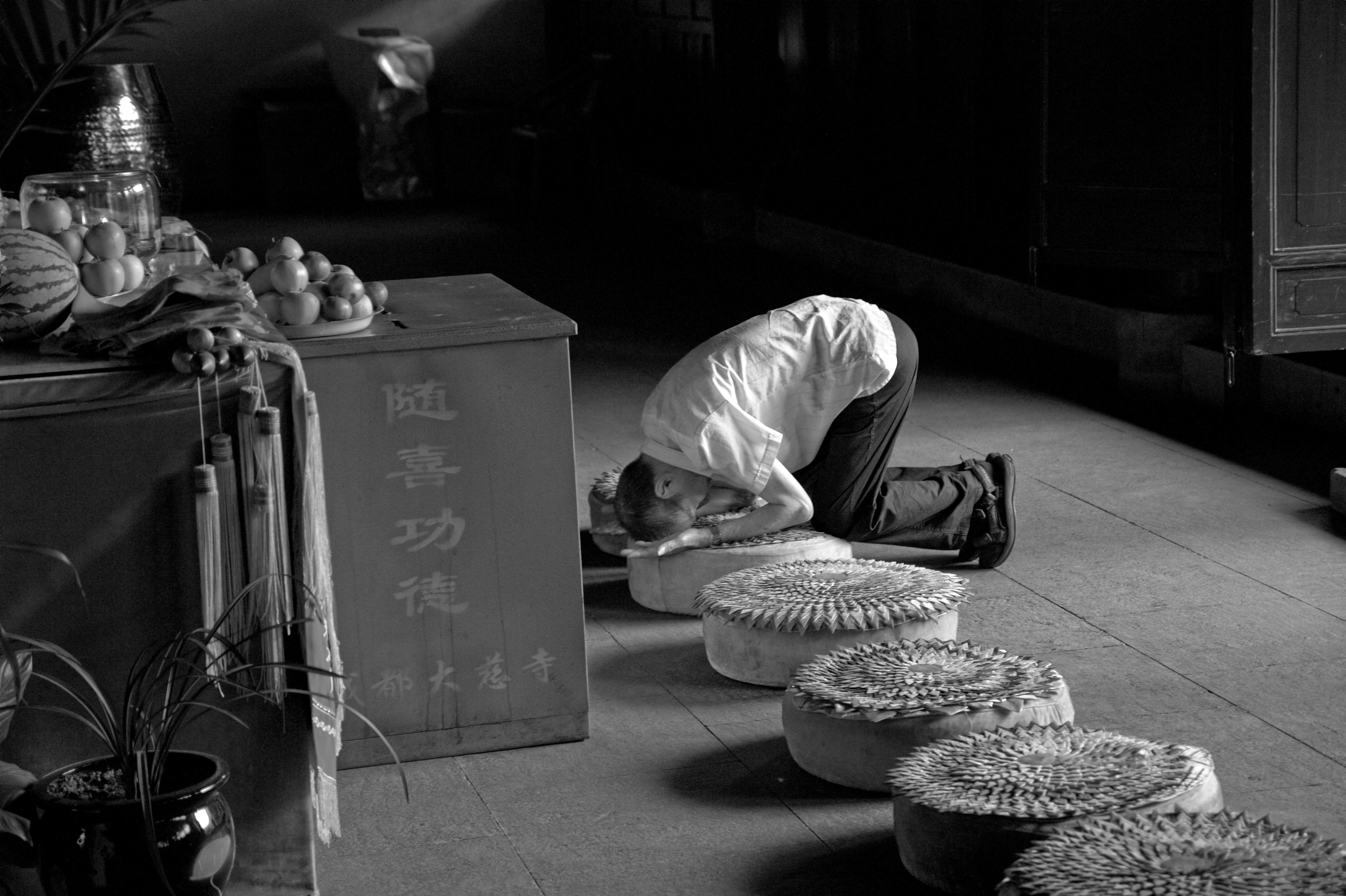 A man is praying in a Chinese temple. China.